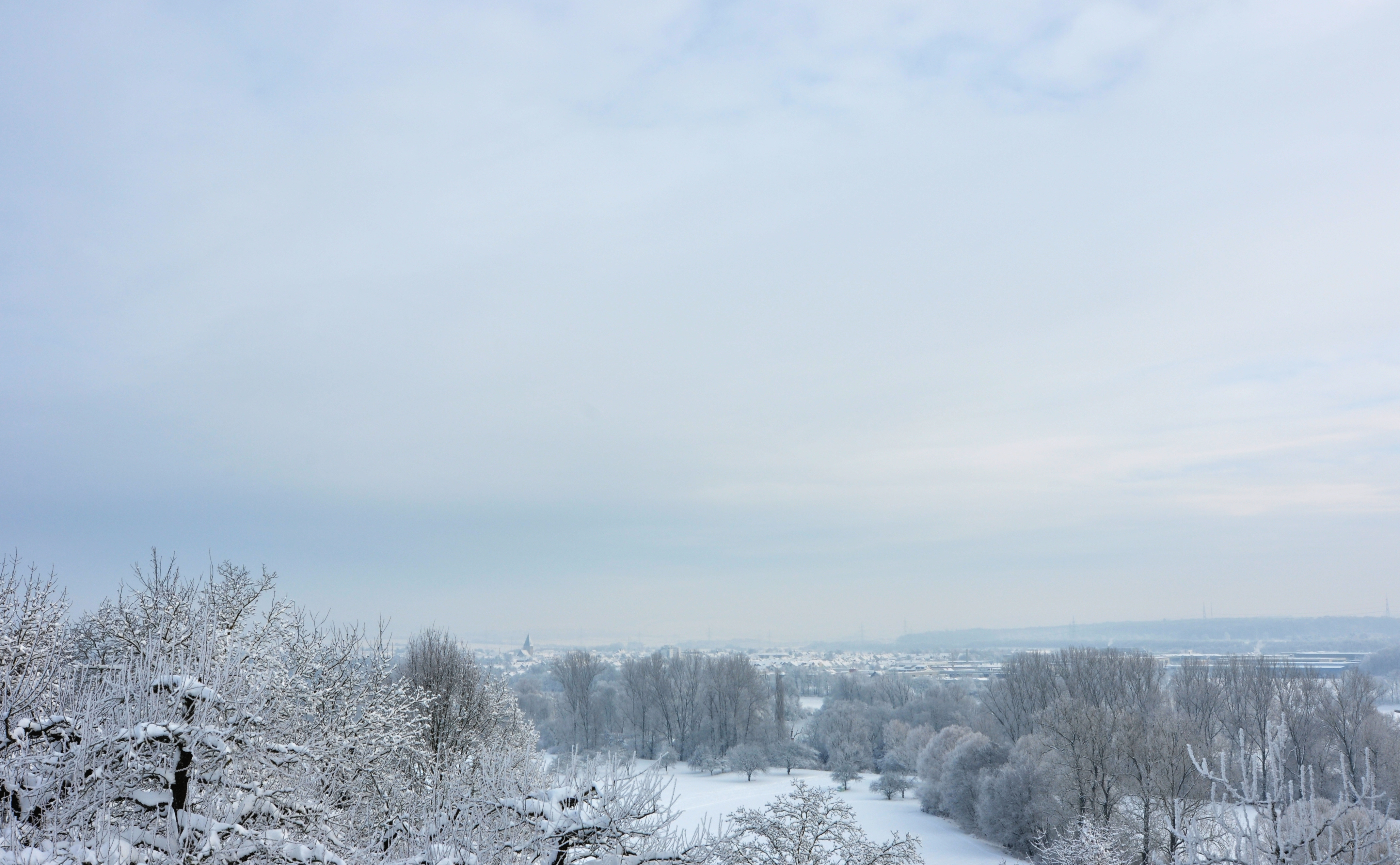 Wiesental (Meadows Valley) between Pleidelsheim und Ingersheim, in the background Pleidelsheim